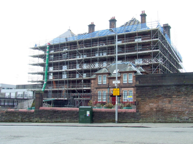 Thornwood Primary School Glasgow, Great Britain